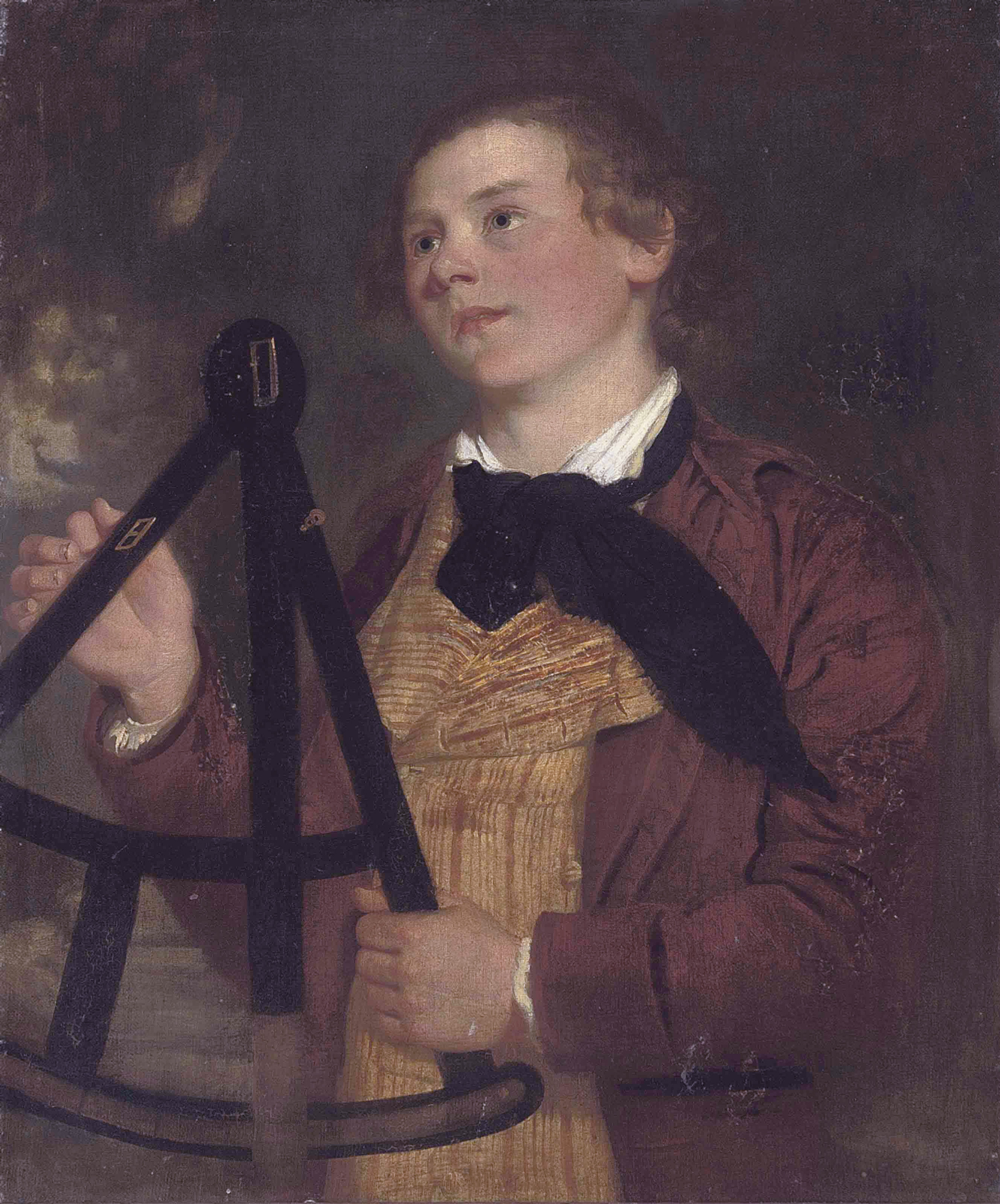 John Adey Repton, F.S.A. (1775-1860) holding a surveyors theodolite oil on canvas 76.8 x 64.1 cm 18th century